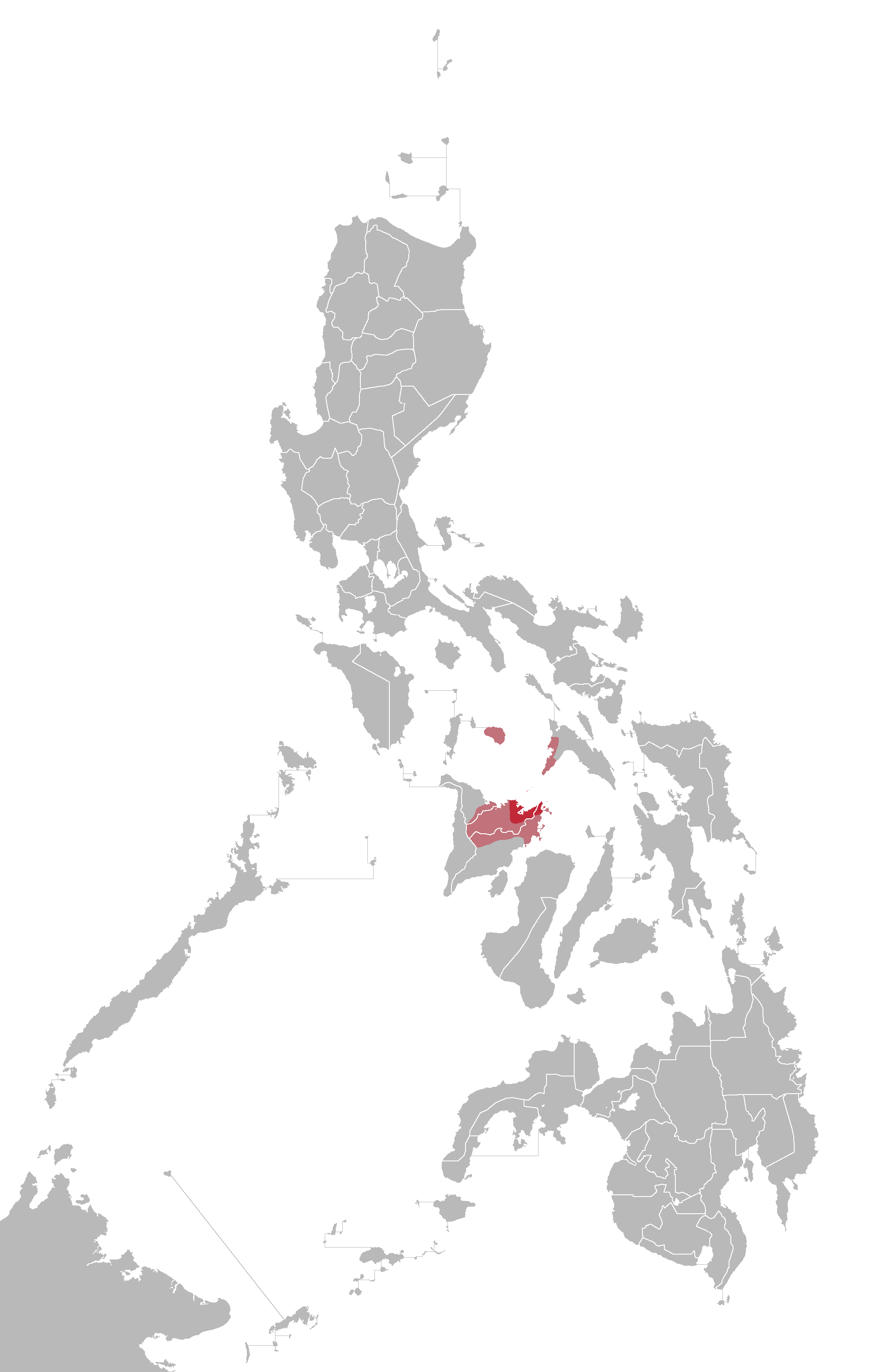 Capiznon language map based on Ethnologue maps